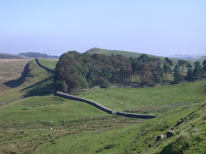 Photo by Keith Edkins